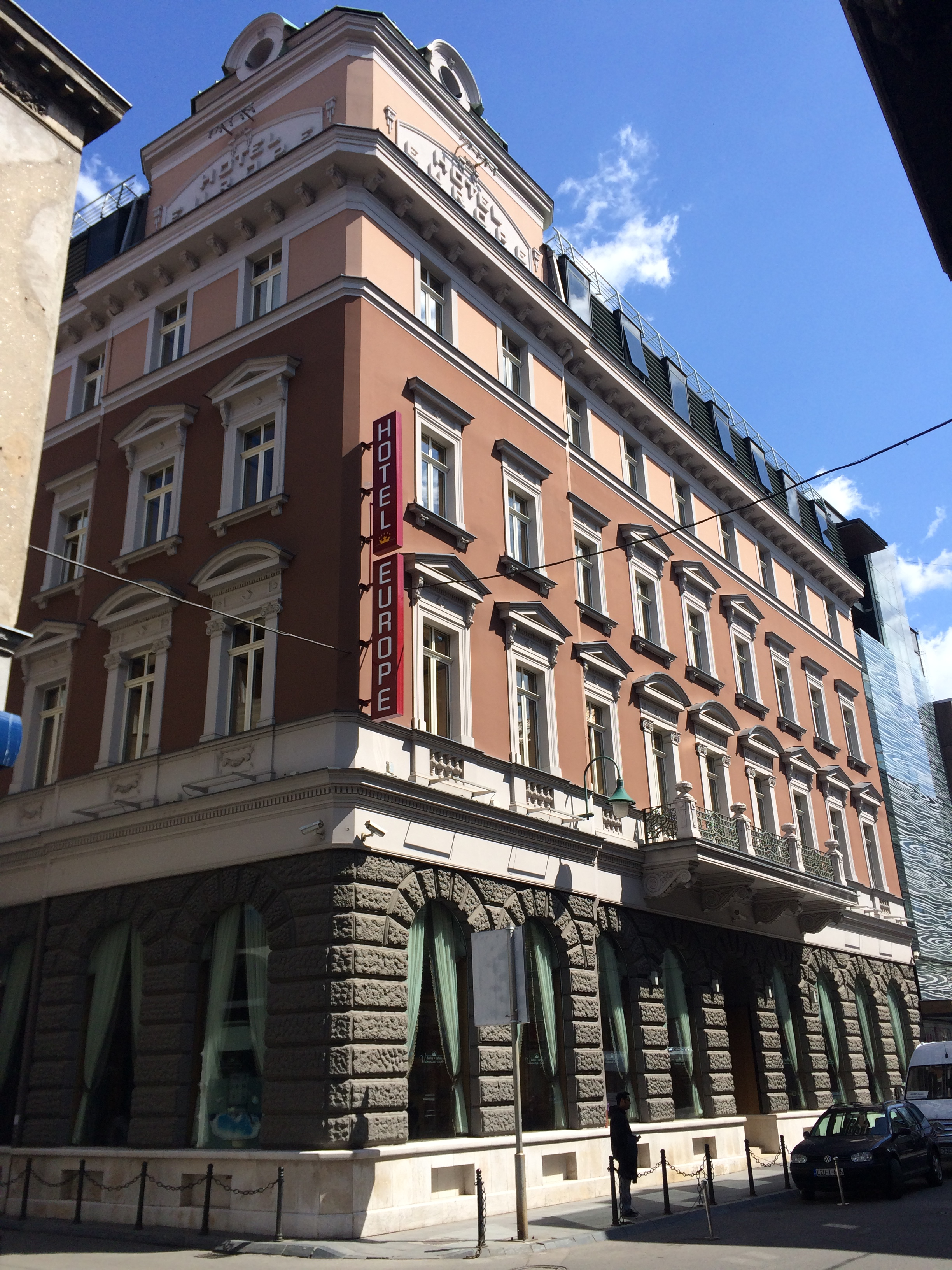 image of building in Sarajevo, Bosnia & Hercegovina